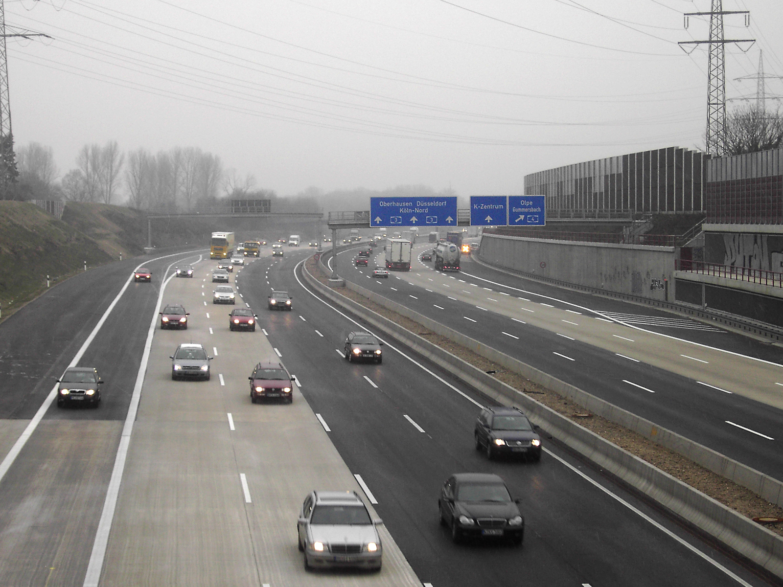 Bundesautobahn 3 and 4 in Cologne with eight-lane section of Cologne Beltway